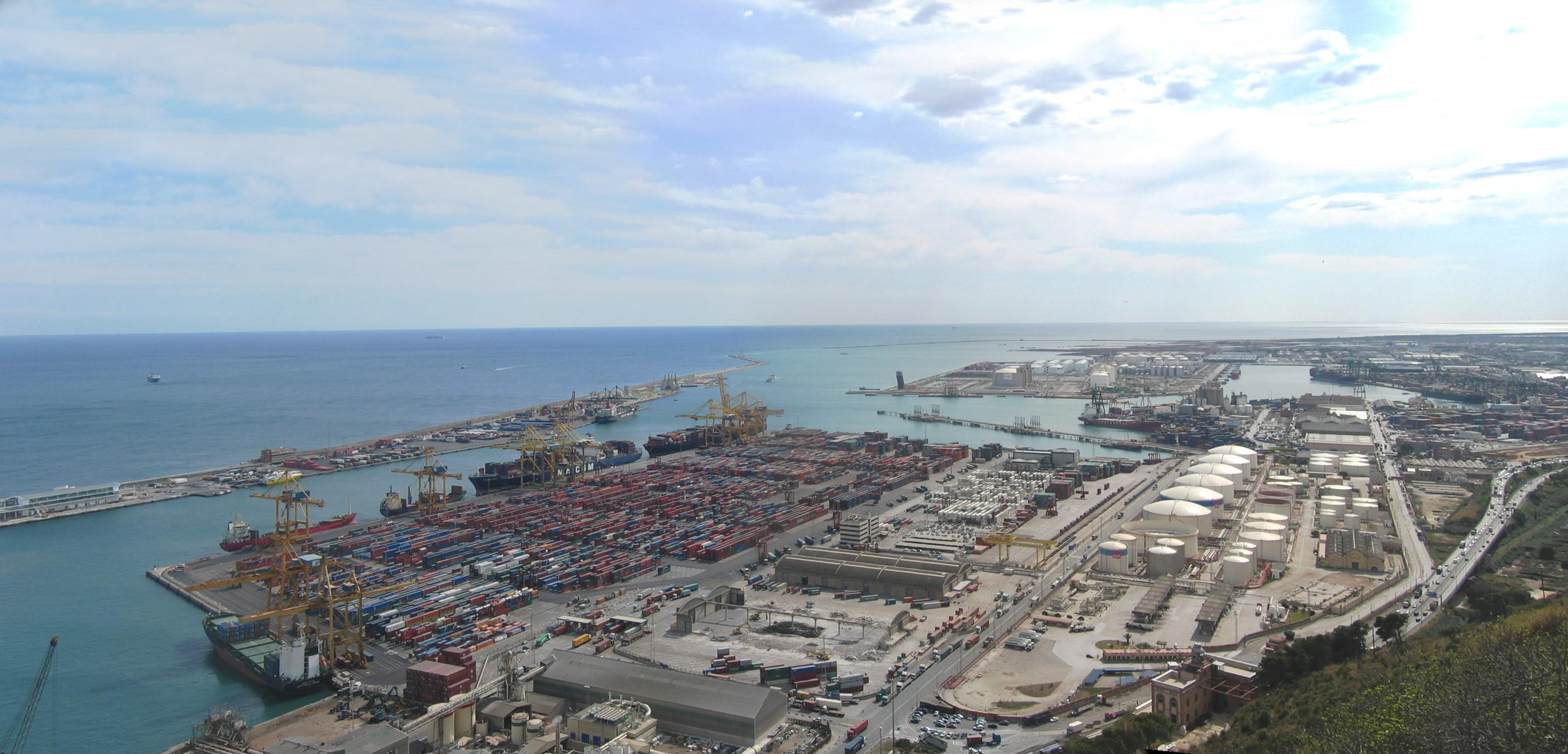 Barcelona Free Port; view from Montjuïc